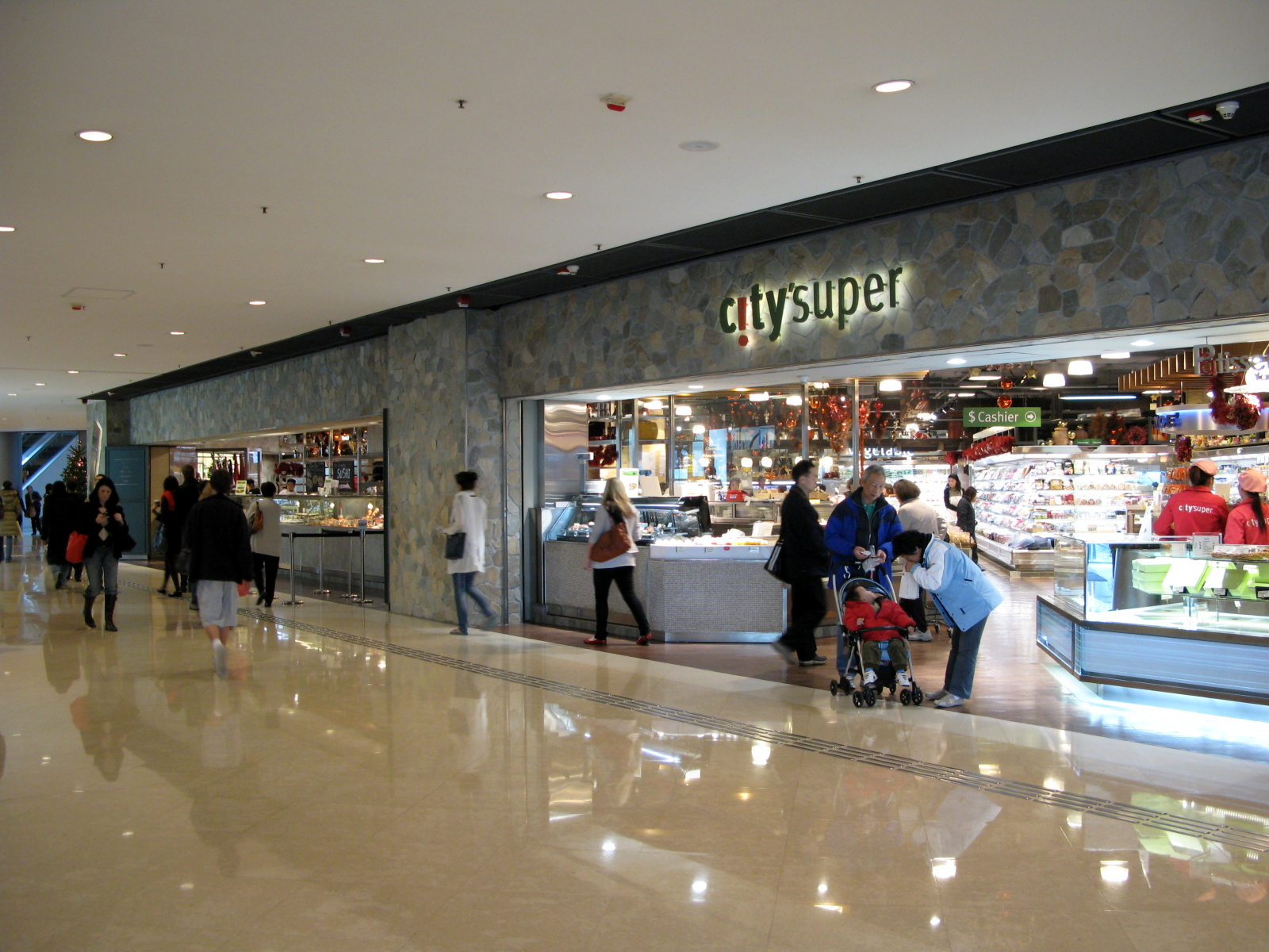 Citysuper ifc store 國際金融中心二期內的c!ty'super